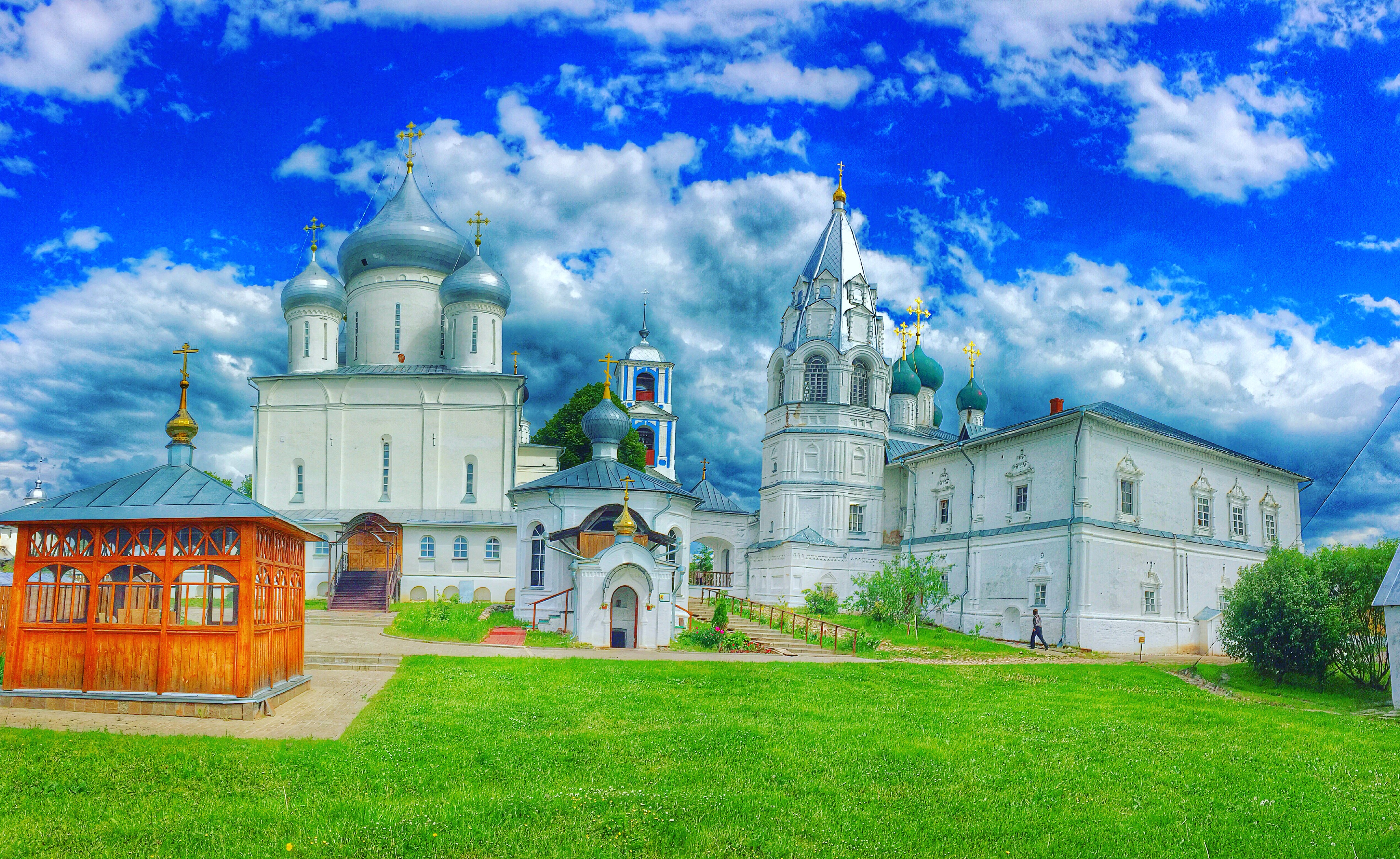 Nikitski monastery in Pereslavl-Zalessky. Built in 1010, one of the oldest monasteries in Russia.